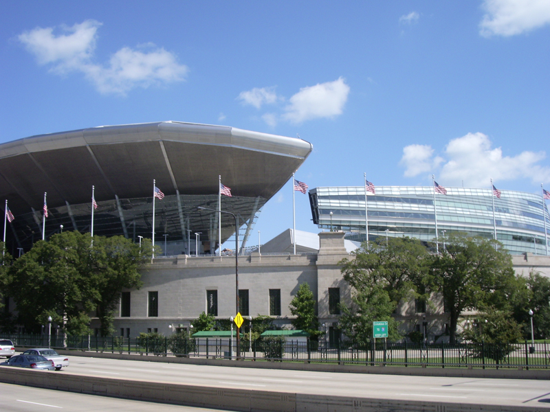 Soldier Field in Chicago, home of the Bears